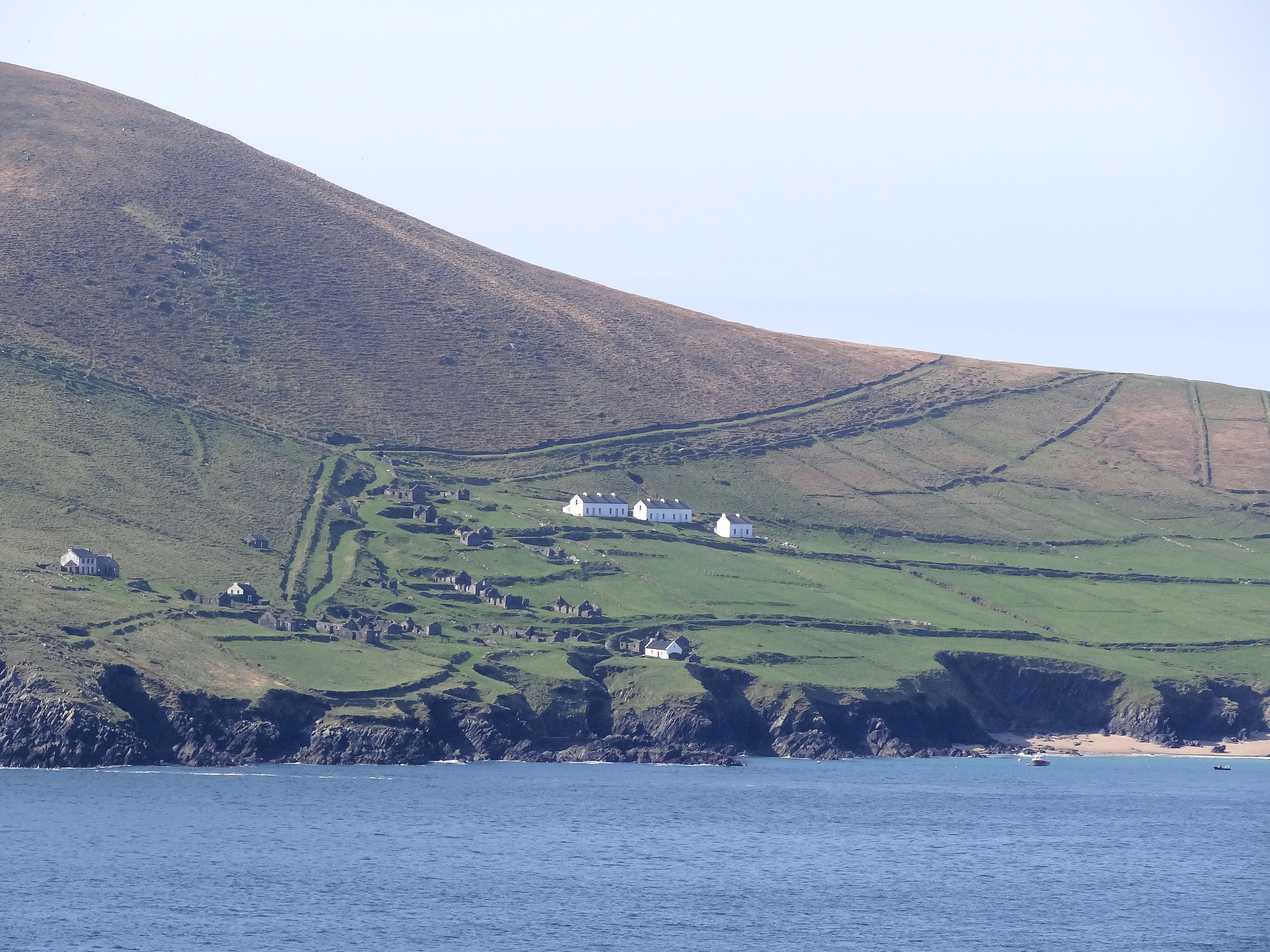 The settlement on the east side of Great Blasket Island, photographed from Dunmore Head on the Dingle Peninsula.